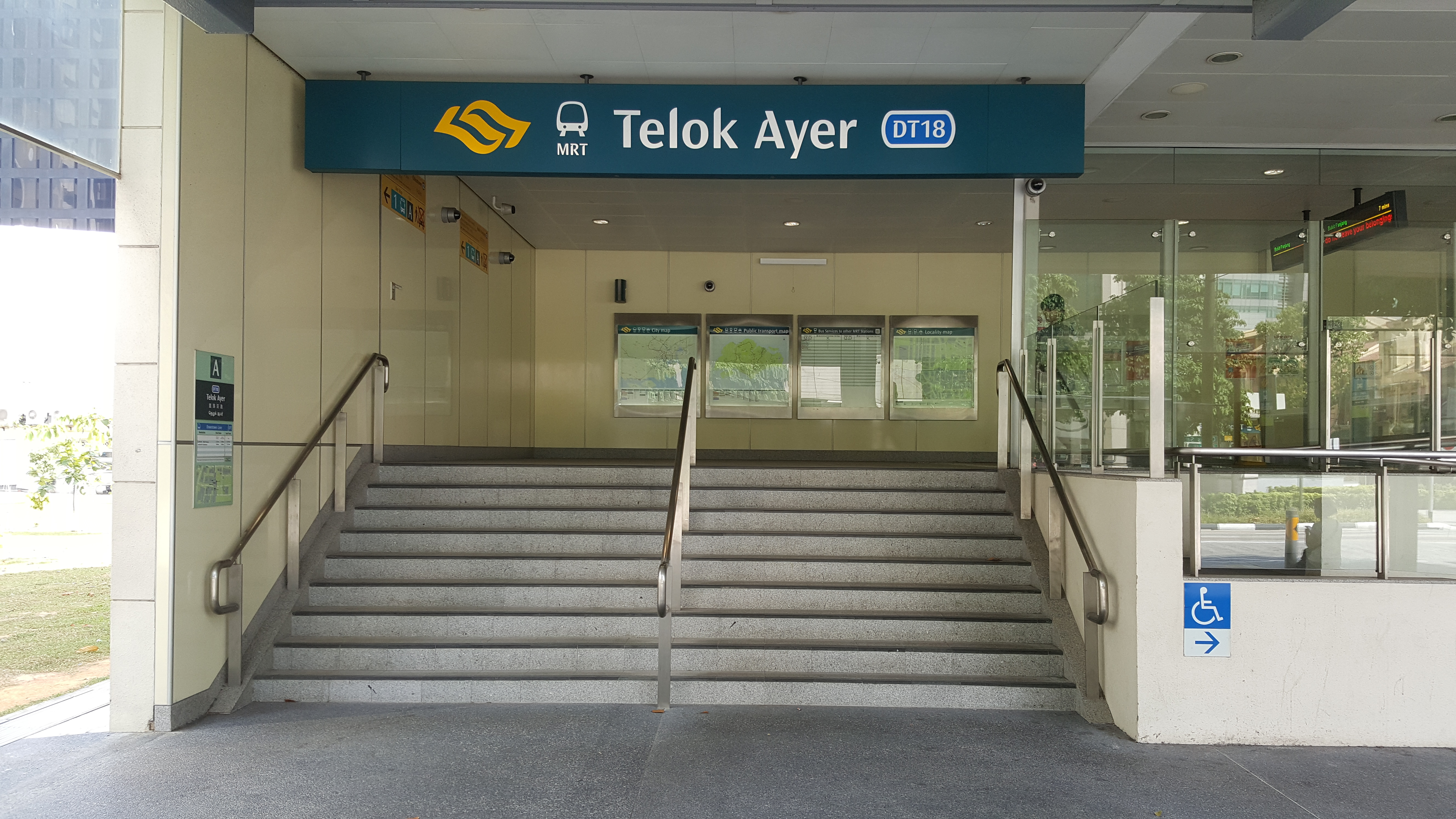 Exit A of Telok Ayer MRT Station